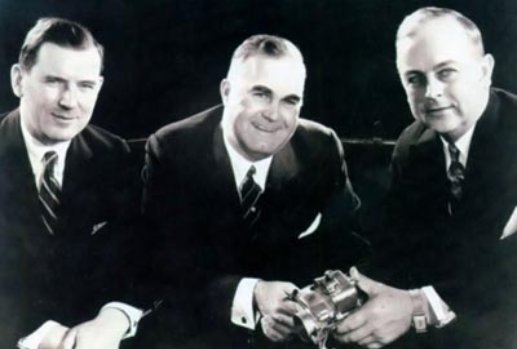 Carl Breer (right) with Chrysler Engineering colleagues Fred Zeder (center) and Owen Skelton (left) in 1933